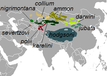 Range of the subspecies of the argali (Ovis ammon)